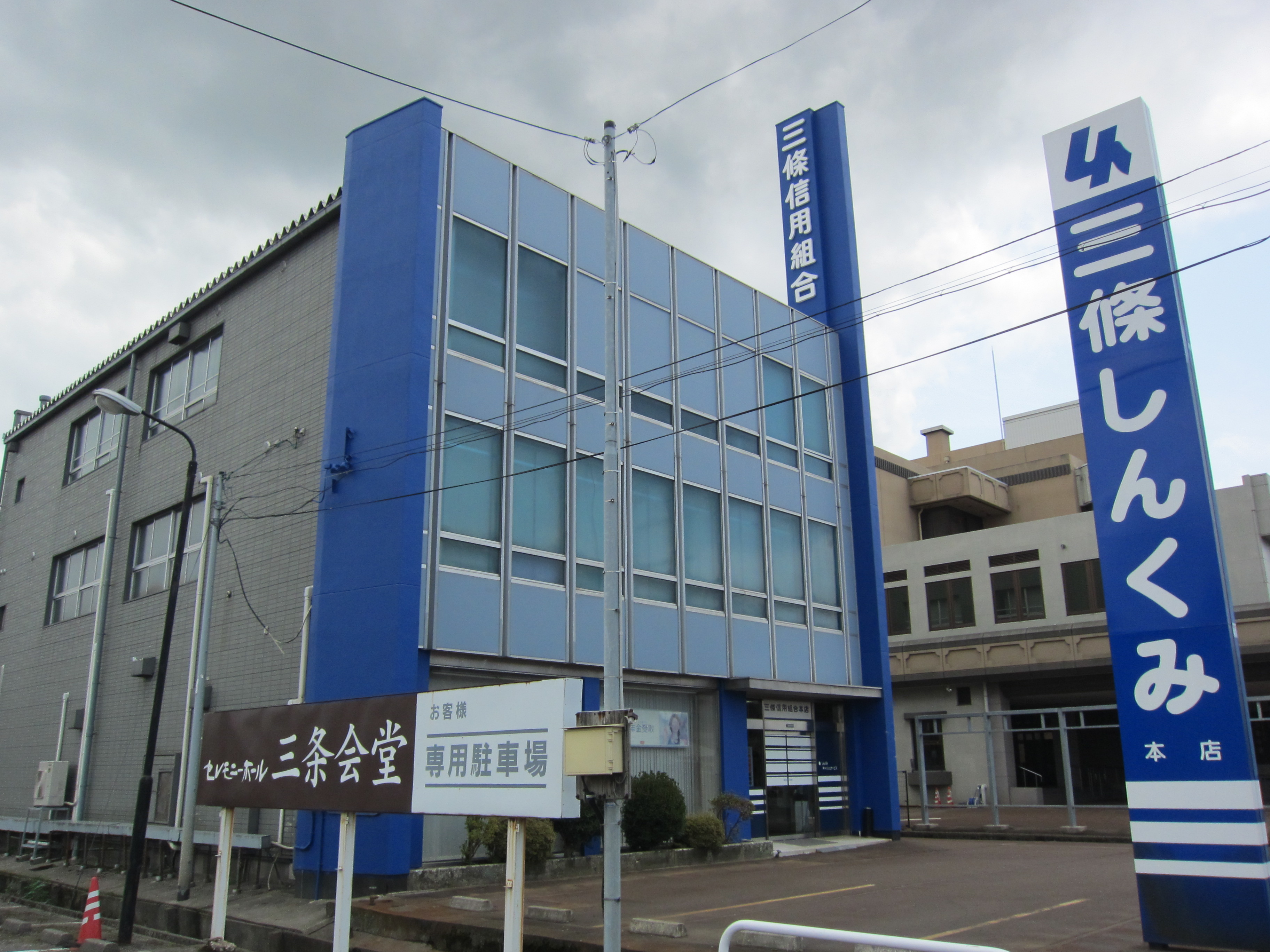 Sanjo Credit Union